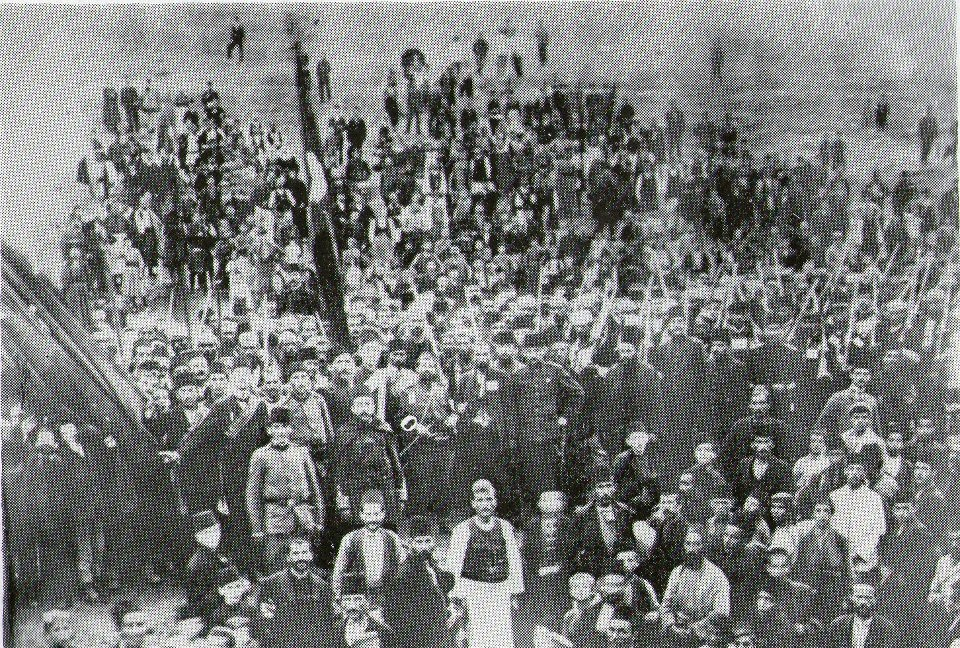 Kichevo Young Turk Detachment in Bitolya 15 July 1908 Commanded by Kel Ali Bey Anastas Mitrev (III) Metodi Strashenov (IV) Simeon Poplazarov (V)